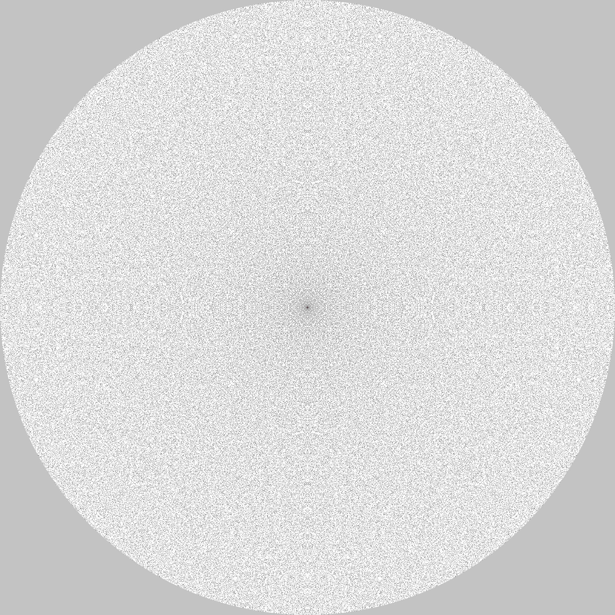 z